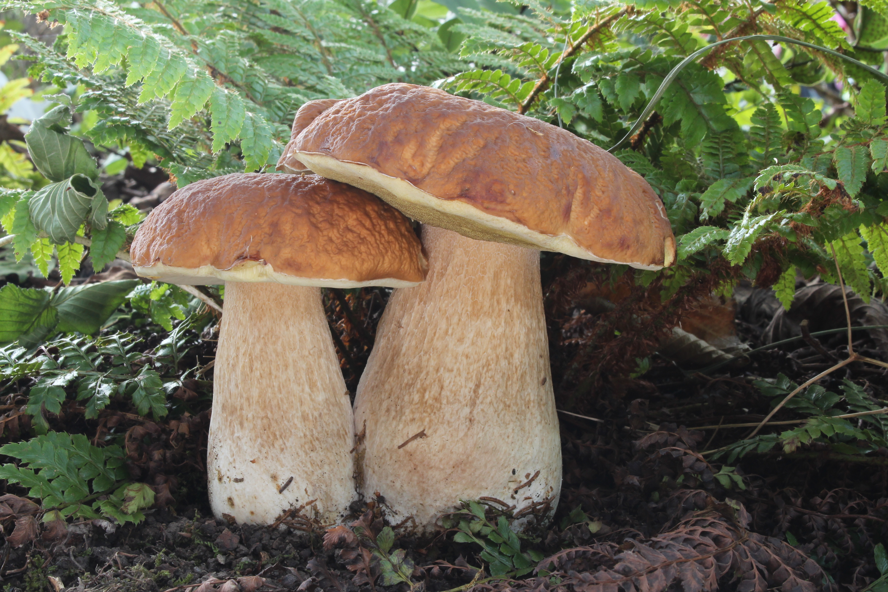 Penny bun, Boletus edulis. Location: Germany, Erbach, Ringingen.